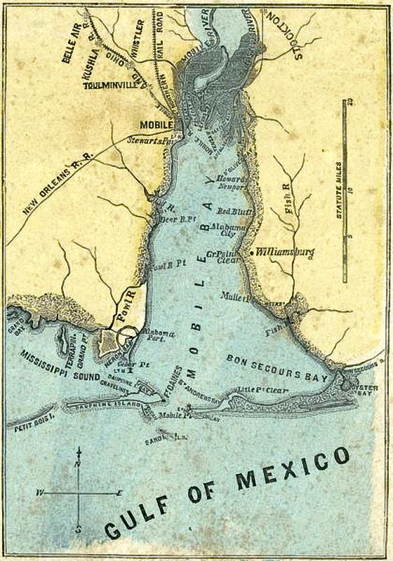 Short Title: H.H. Lloyd & Co's Campaign Military Charts Showing The Principal Strategic Places Of Interest (map of Mobile Bay). Date: 1861. Author: Lloyd, H.H. ; Viele, Egbert L ; Haskins, Charles. Publisher: New York: H.H. Lloyd & Co. Format: File is in JPEG format, 10x-20x times faster than PNG-format files, due to auto-resizing as a smaller file (10-Feb-07). Full Title: H.H. Lloyd & Co's Campaign Military Charts Showing The Principal Strategic Places Of Interest. Engraved Expressly To Meet A Public Want During The Present War. Compiled From Official Data By Egbert L. Viele, Military and Civil Engineer; and Charles Haskins. Published Under The Auspices Of The American Geographical And Statistical Society. Entered ... 1861 by H.H. Lloyd & Co. H.H. Lloyd & Co's Military Charts. Sixteen Maps On One Sheet. Variations: PNG-format file (same width 420x600, 10x larger file): :Image:Battle of Mobile Bay map.png (587 KB). Map labels (clockwise from top): Northern bay: Mobile River, Tensaw River, Appalacha River, D'Olive's Bay, Batteau Bay, Tensaw R., Levons B., Polecat Bay, Blakely I., Mobile R.; Eastern shore: Stockton, D'Olive's Bay, Howards Newport, Fish River, Red Bluffs, Alabama City, Williamsburg, GrPoint Clear, Mullet Point, Weeks' Bay, Fish R., Bon Secours R(iver); Bottom bay: Oyster Bay, Bon Secours Bay, Litle Pt Clear, St Andrews Bay, LT H, Ft. Morgan, Mobile Pt, Sand I(sland) / L.H., FT. Gaines, Pelican Bay, Dauphine I. Bay, Gravelines, Dauphine Island, Petit Bois I(sland), MISSISSIPPI SOUND; Western shore: Grand Bay, Terrapin., Grand Pt., Heron Bay, LT H, Cedar Pt, Alabama Port., Fowl R(iver), Fowl R Pt, Deer R(iver) Pt, Dog R(iver), New Orleans R.R. (railroad), Stewarts Pav, LT H, MOBILE, Mobile and Ohio R.R. (railroad), Gt Northern Rail Road, Toulminville, Whistler, Kushla, Belle Air.